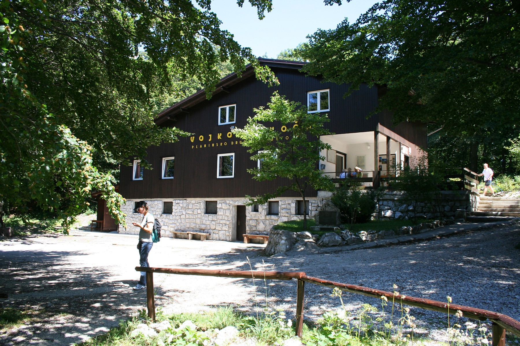 Nanos mountain, Vojkova mountain hut